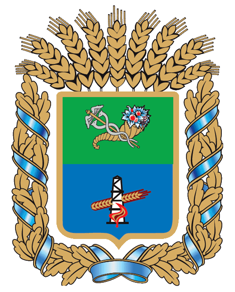 Coats of arms of Kegycivskyj raions